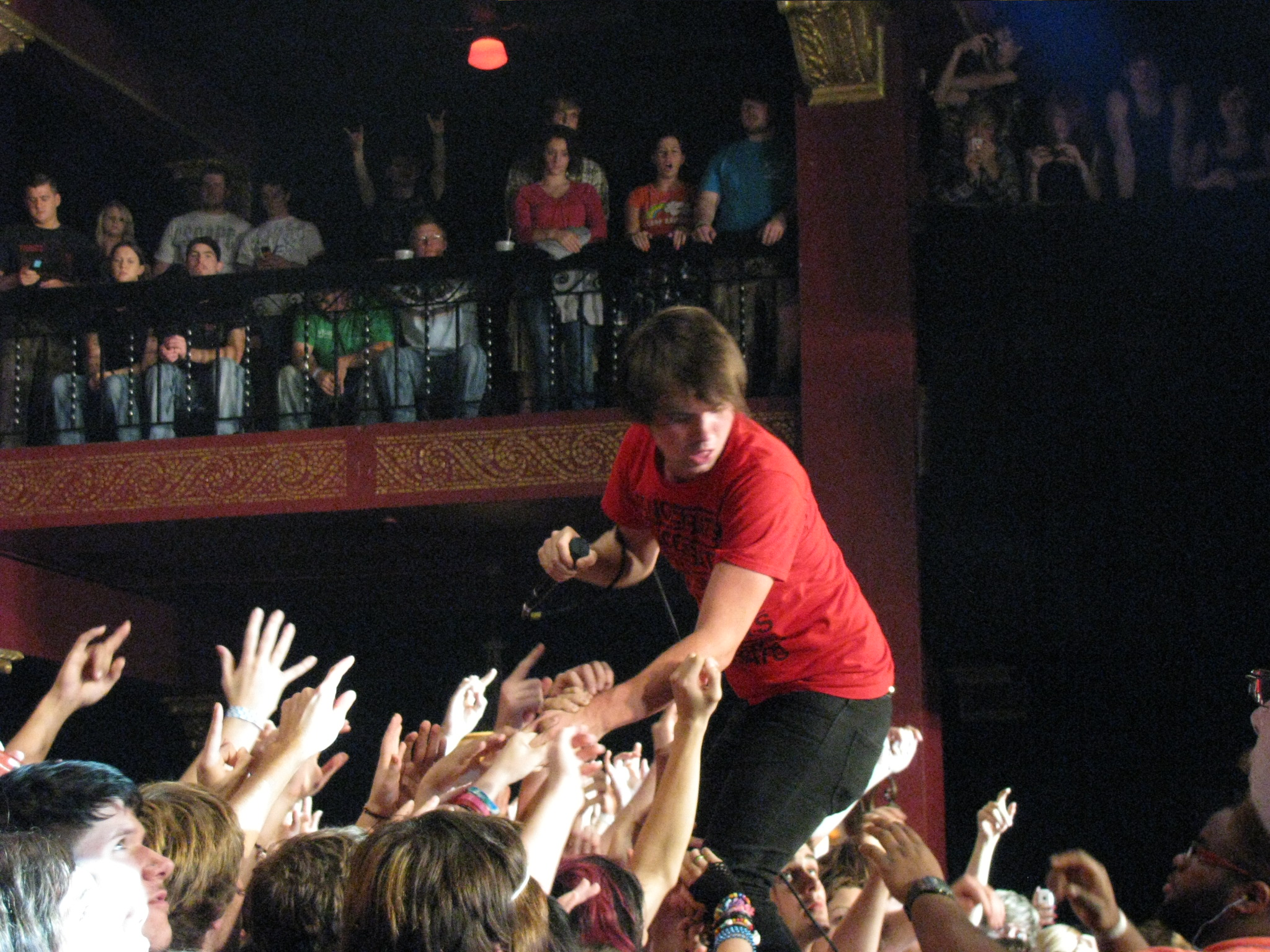 Shane Told, lead singer of Silverstein, rises above his fans at the band's show in Milwaukee on October 11, 2008